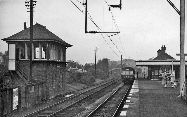 Burnside Station. View westward, towards Glasgow; ex-Caledonian Glasgow (Central) - Kirkhill - Newton line, electrified early in 1962 - the wires being already in place here in October 1961. The platform is an island and the DMU is receding.